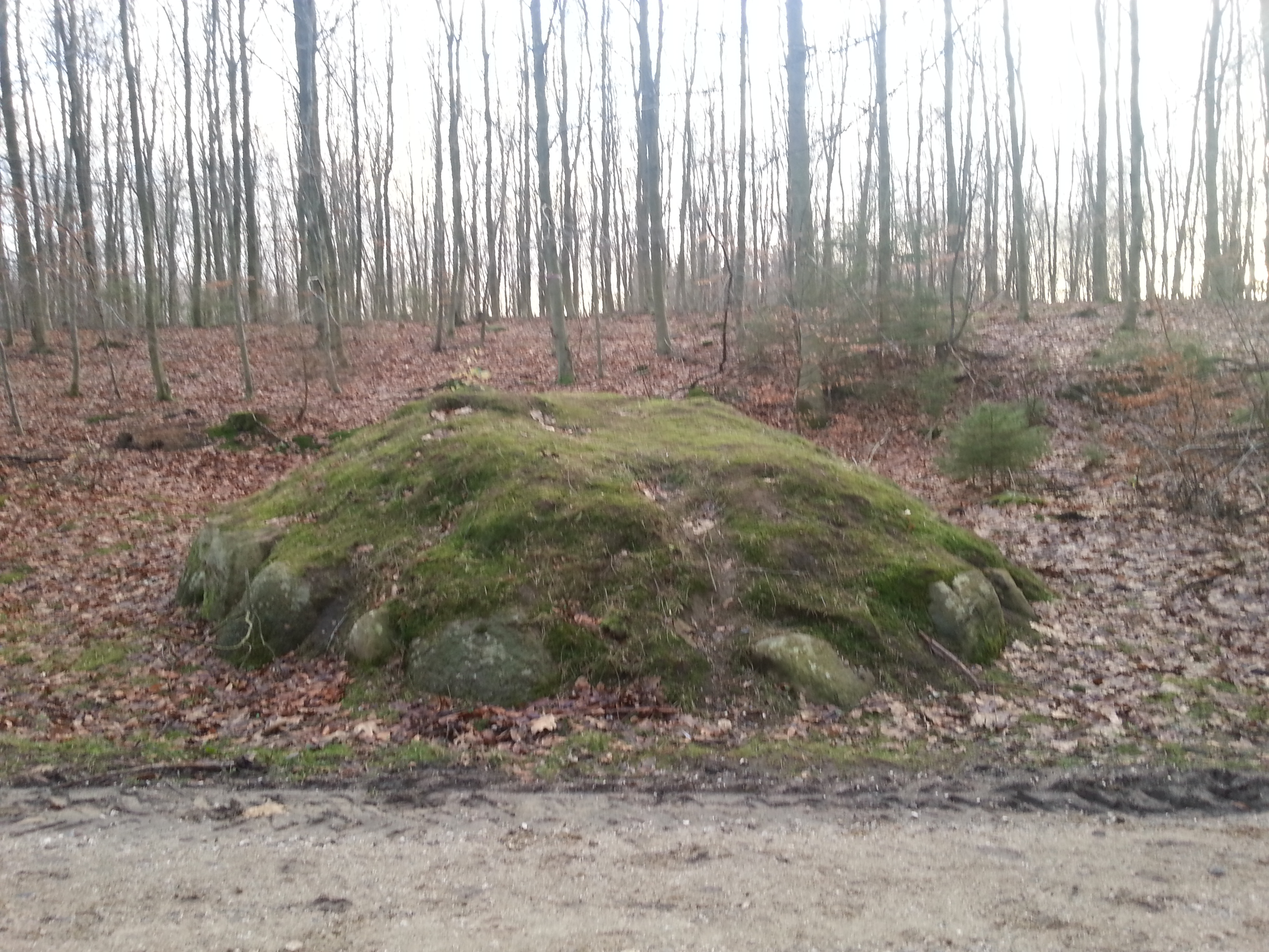 Ole Rømer 2